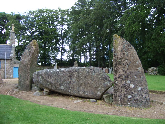 The recumbent stone In the Stone Circle in Midmar churchyard.